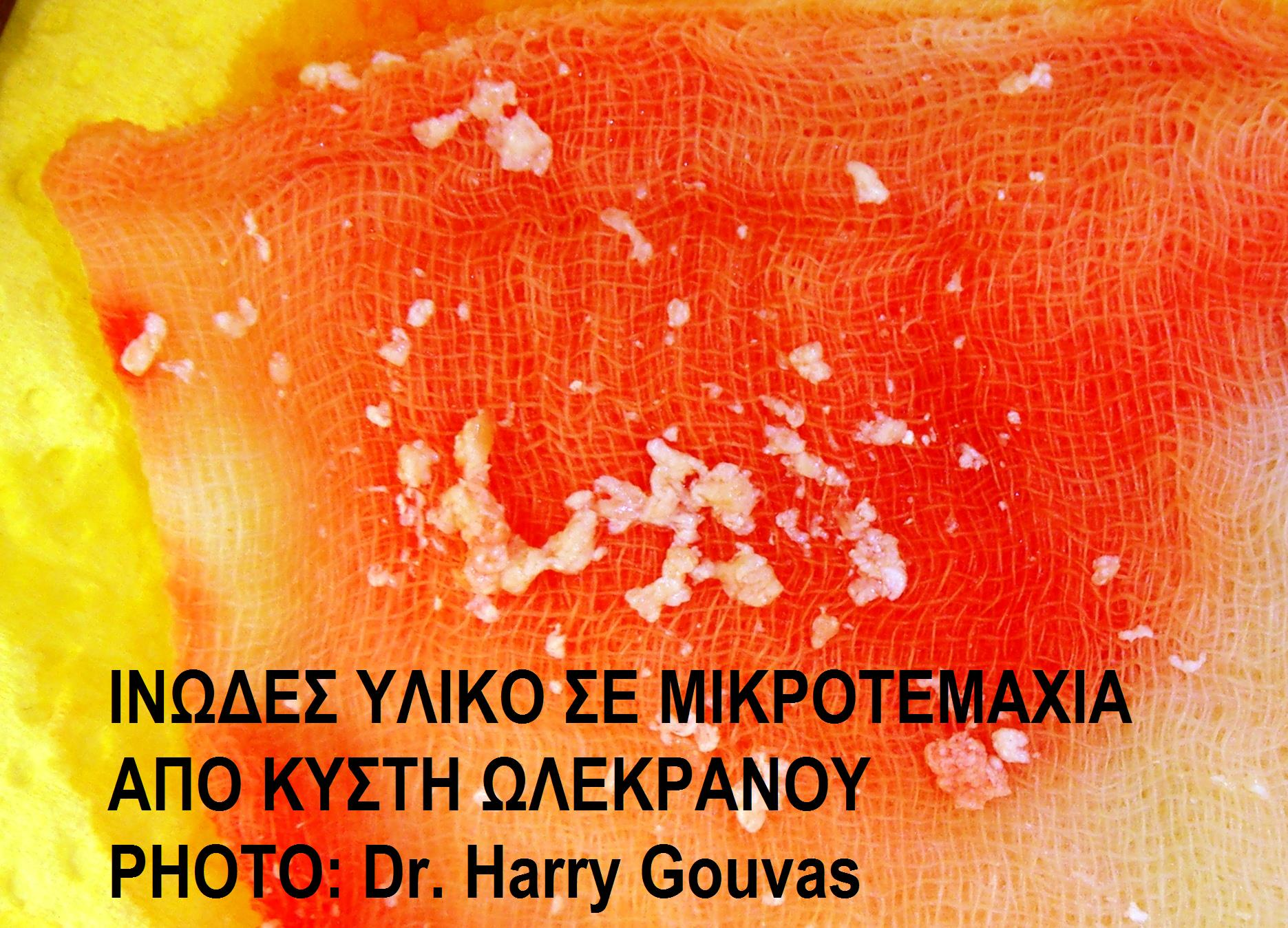 Olecranon bursitis material